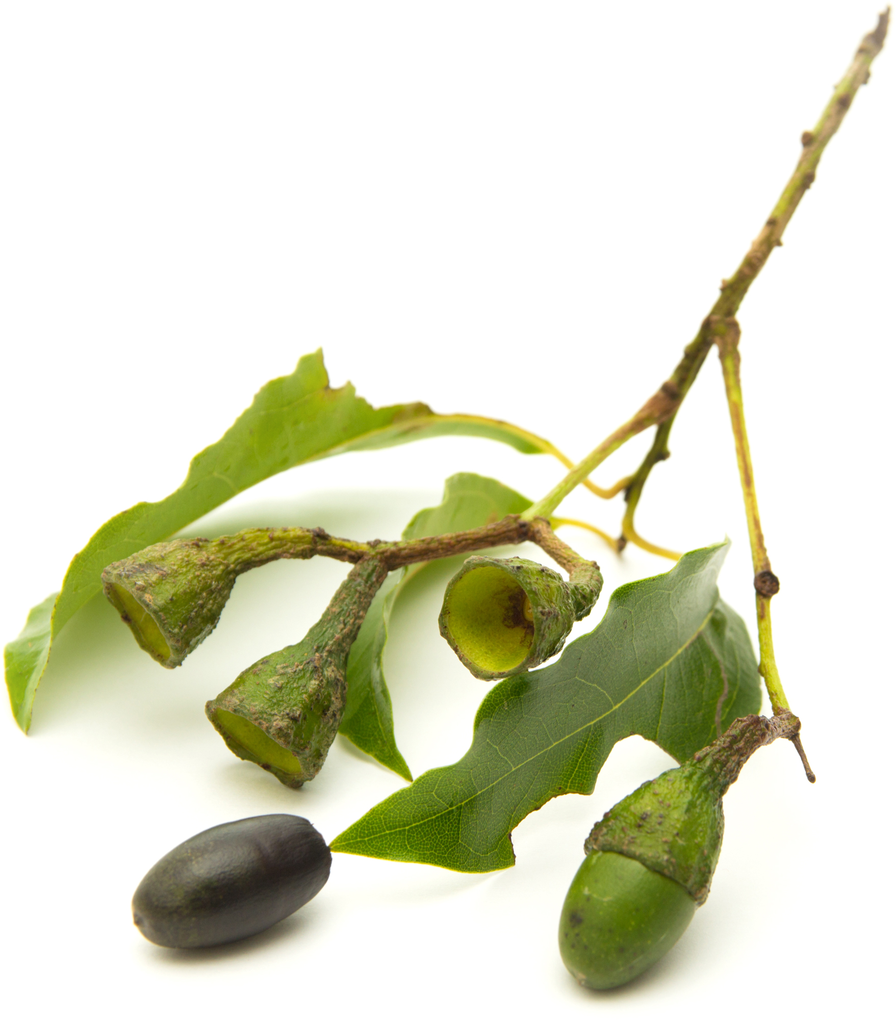 Branch of Ocotea foetens or Tilo, endemic to Macaronesia